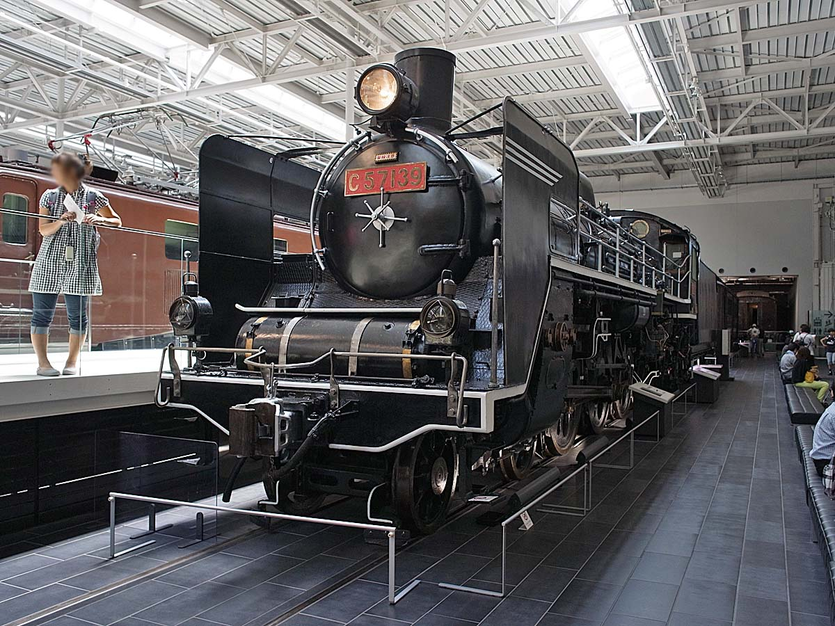 JNR Class C57 , 国鉄C57形蒸気機関車